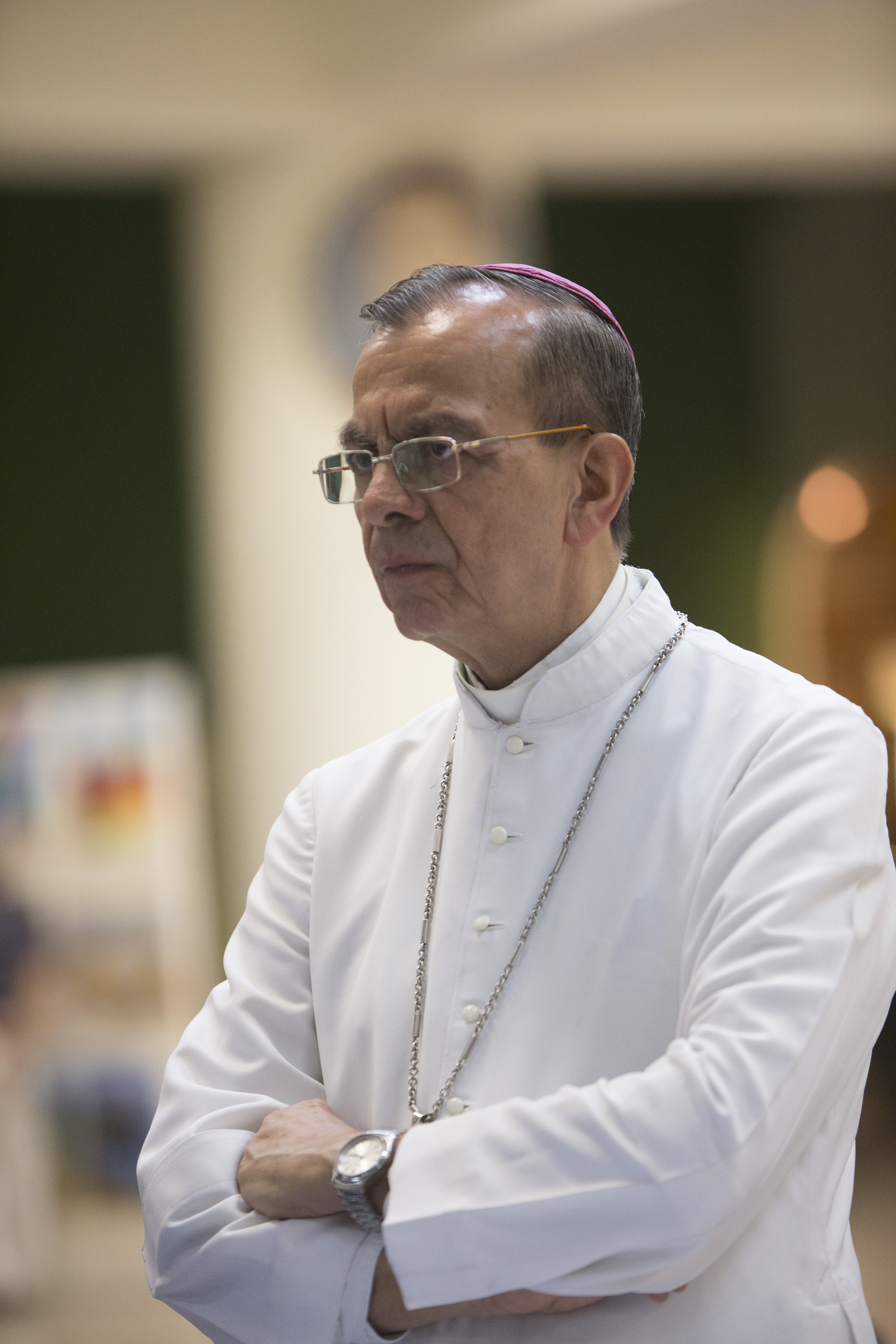 Bishop Gregorio Rosa Chavez, an auxiliary bishop who works as a parish pastor in San Salvador was named Cardinal by Pope Francis on May 21.